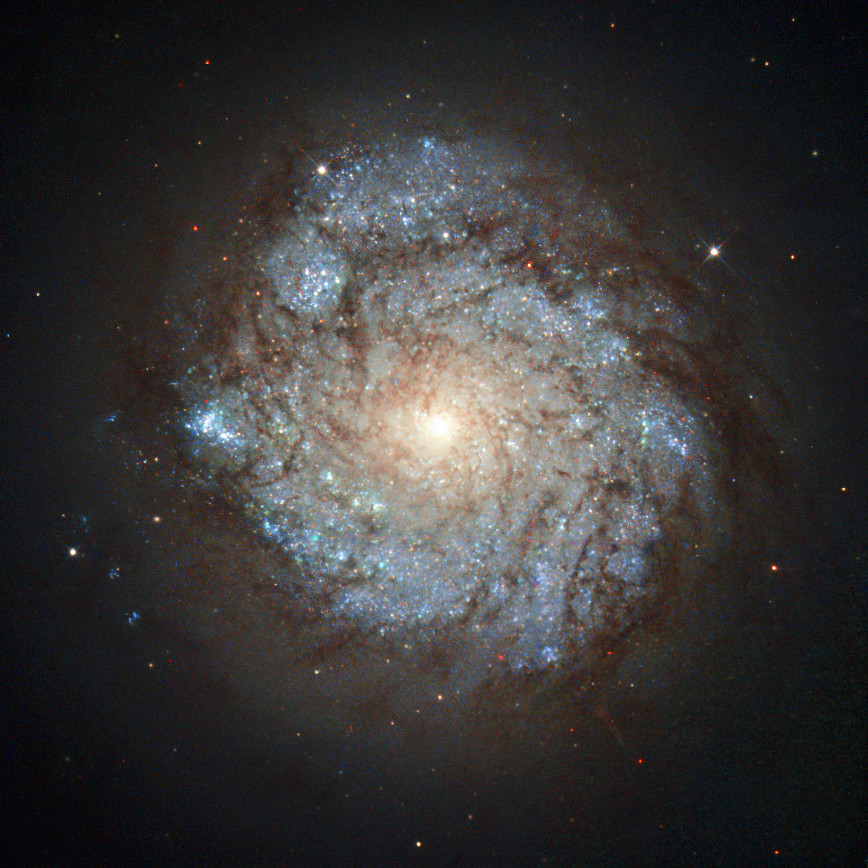 This image, taken by the NASA/ESA Hubble Space Telescope’s Wide Field Planetary Camera 2, shows a spiral galaxy named NGC 278. This cosmic beauty lies some 38 million light-years away in the northern constellation of Cassiopeia (The Seated Queen). While NGC 278 may look serene, it is anything but. The galaxy is currently undergoing an immense burst of star formation. This flurry of activity is shown by the unmistakable blue-hued knots speckling the galaxy’s spiral arms, each of which marks a clump of hot newborn stars. However, NGC 278’s star formation is somewhat unusual; it does not extend to the galaxy’s outer edges, but is only taking place within an inner ring some 6500 light-years across. This two-tiered structure is visible in this image — while the galaxy’s centre is bright, its extremities are much darker. This odd configuration is thought to have been caused by a merger with a smaller, gas-rich galaxy — while the turbulent event ignited the centre of NGC 278, the dusty remains of the small snack then dispersed into the galaxy’s outer regions. Whatever the cause, such a ring of star formation, called a nuclear ring, is extremely unusual in galaxies without a bar at their centre, making NGC 278 a very intriguing sight.